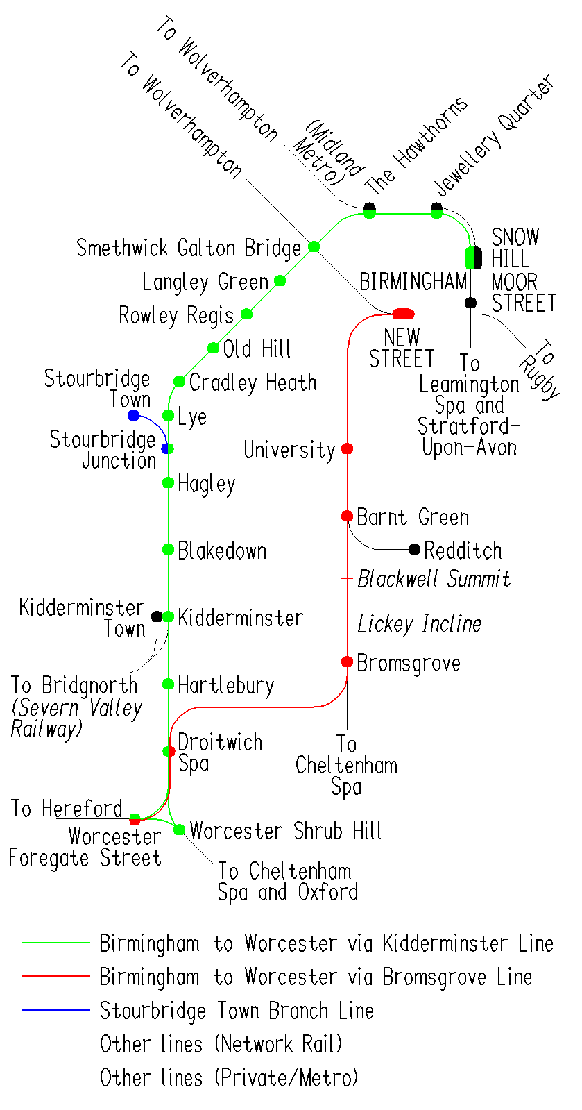 Diagrammatic map of the Birmingham to Worcester via Kidderminster, Birmingham to Worcester via Bromsgrove and Stourbridge Junction to Stourbridge Town lines; image created using MicroStation and exported as png file.